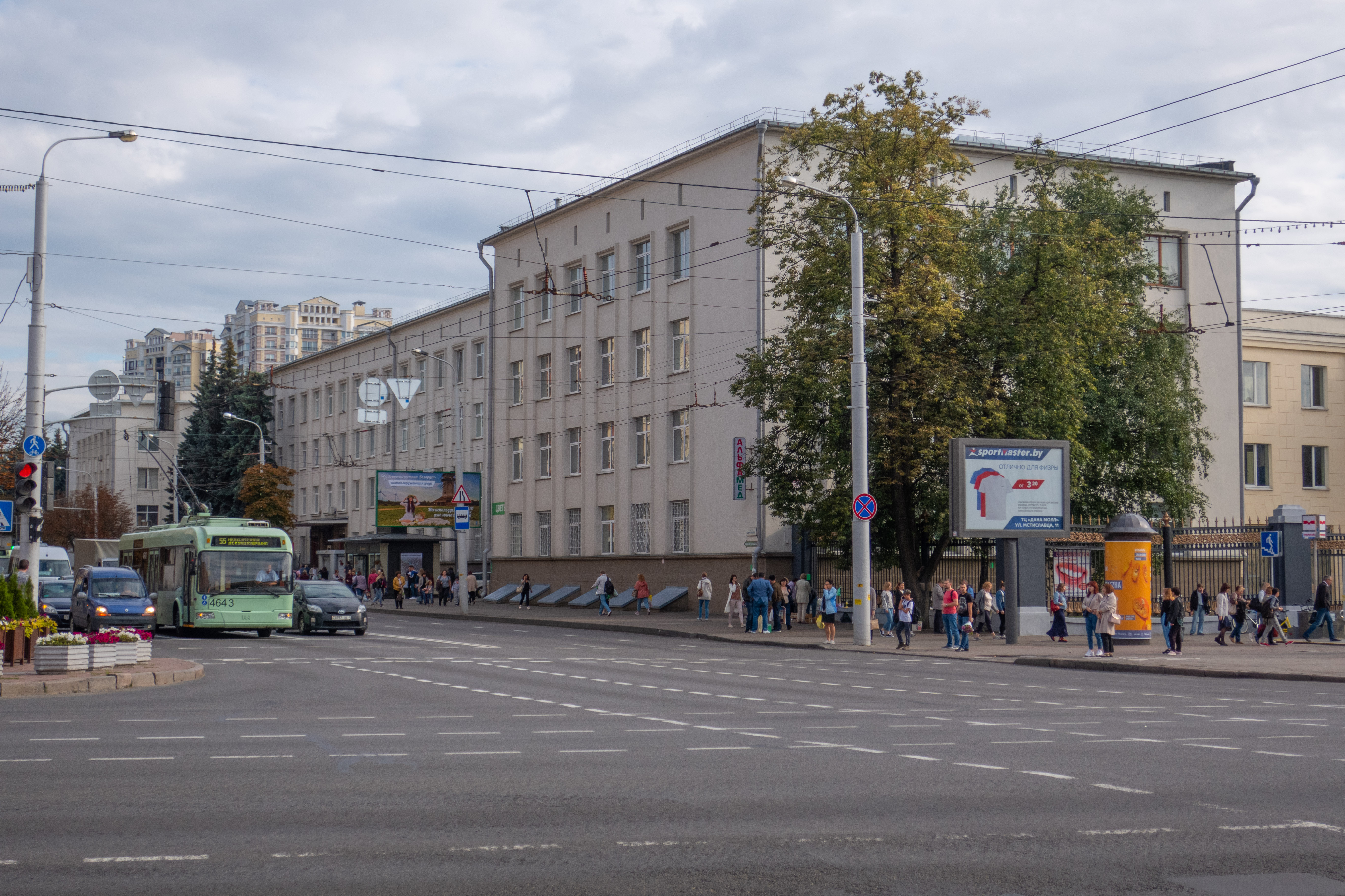 Intersection of Surhanava street — Independence avenue. Minsk, Belarus